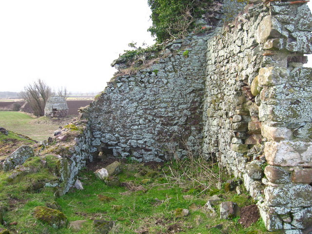 Waughton Castle and Doocot. Very little remains of Waughton Castle, two miles west of Whitekirk. Waughton Castle is first reported in the mid 1300s when it was in the possession of the Hepburns of Waughton. The doocot in the background is of later 1500s origin. By the 1700s the castle was sadly being used as a quarry to build local cottages and walls. There is more information and a reconstruction drawing at